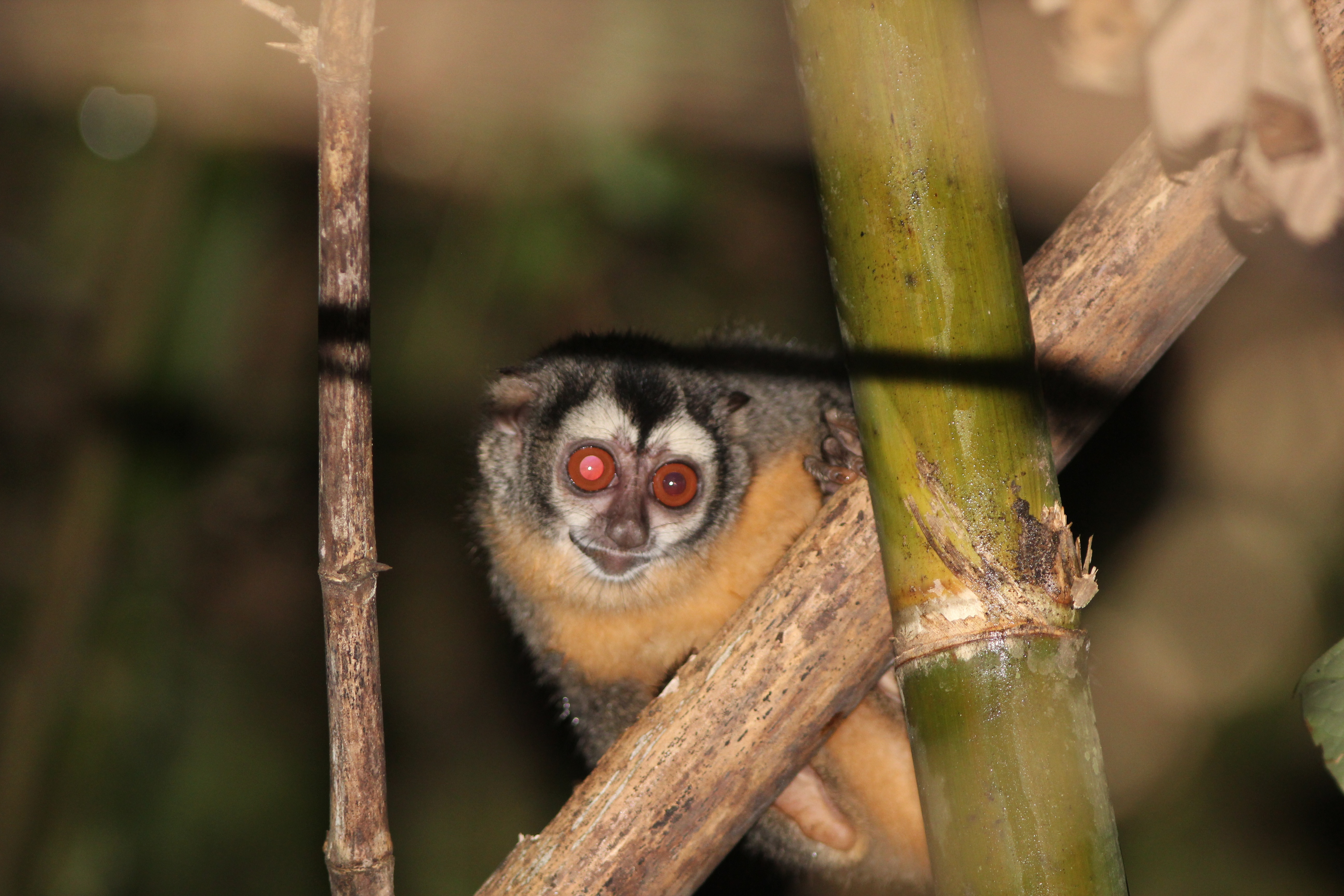 Feline night monkey (Aotus azarae infulatus) at Cristalino Jungle Lodge, Mato Grosso, Brazil.